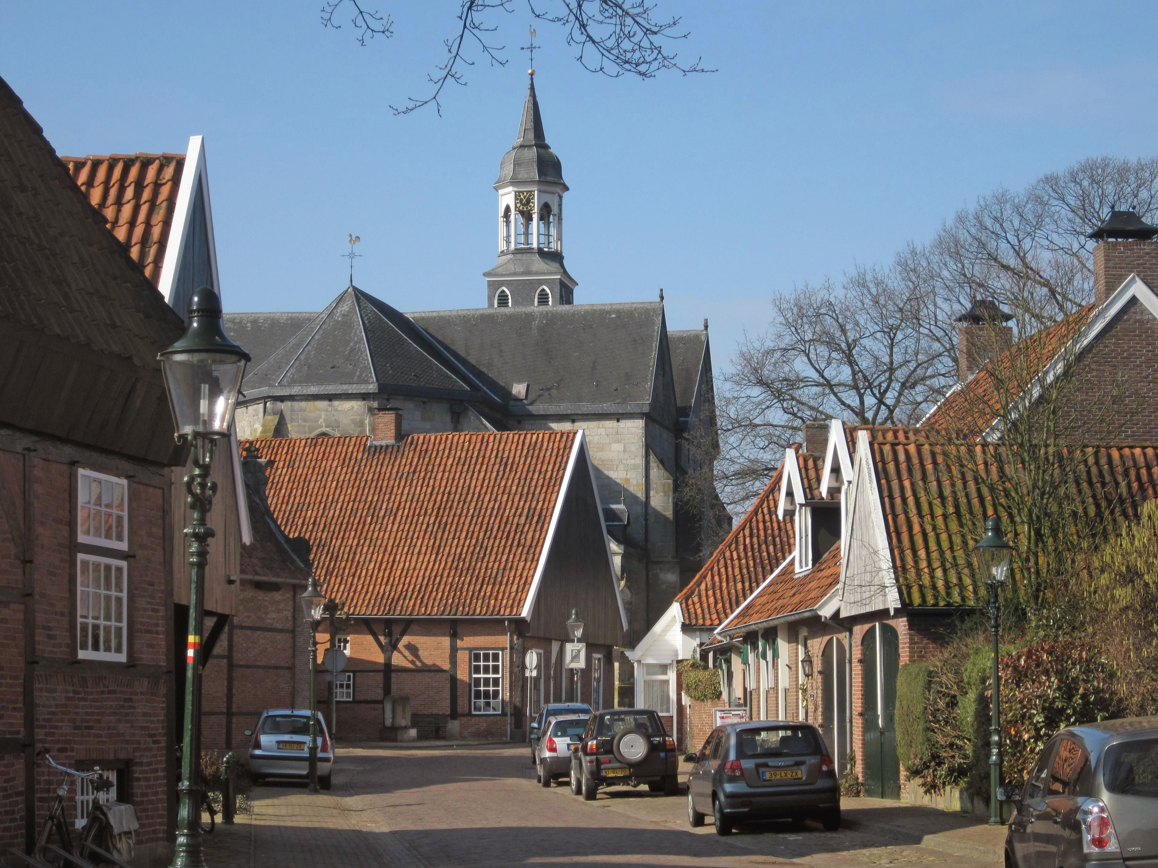 Intschede (Ootmarsum, Netherlands), View at the Roman Catholic Church, photo 2012